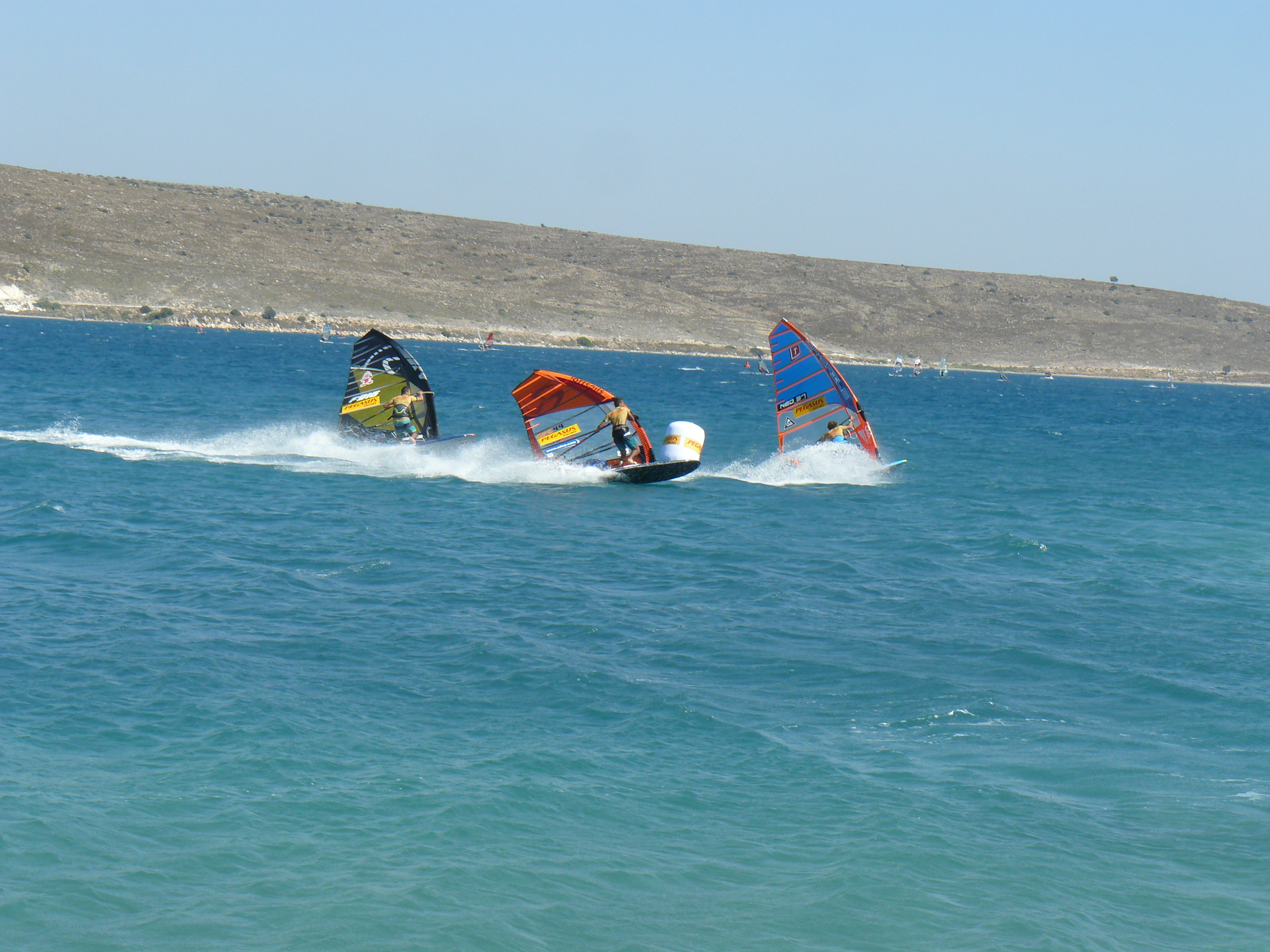 Pascal Toselli F-916, Tristan Algret GPE-44 and Ben Van Der Steen NED-57 at the jibe buoy in the first run of the Windsurf World Cup Alacati 2014. Van der Steen won this round.